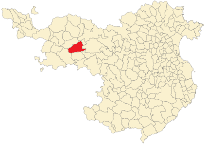 San Juan de las Abadesas